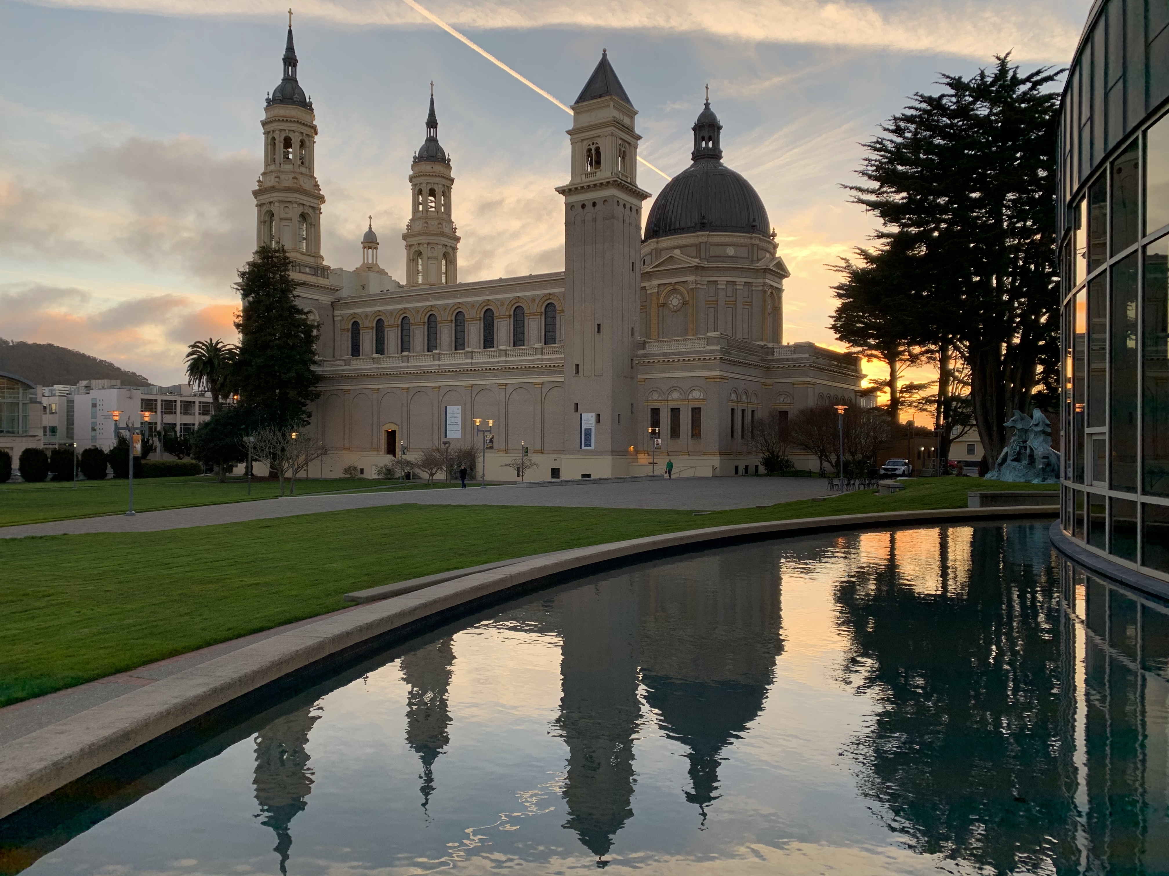 USF Campus at Sunset